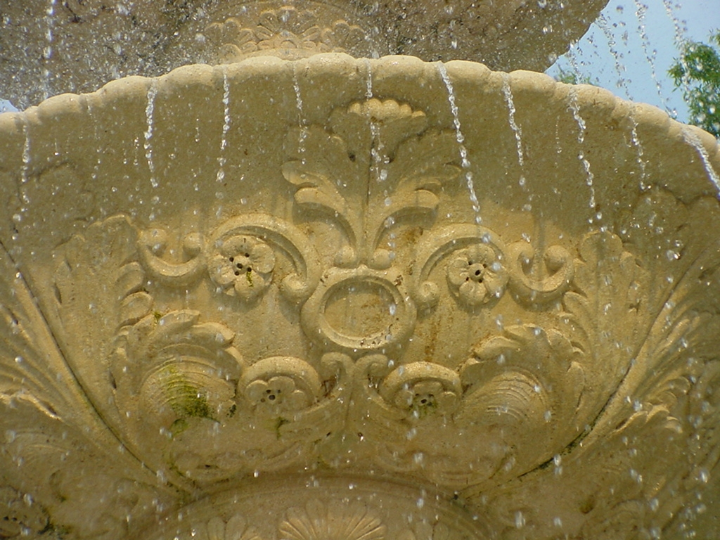 Taken by me on the University of North Alabama campus, May 28, 2007